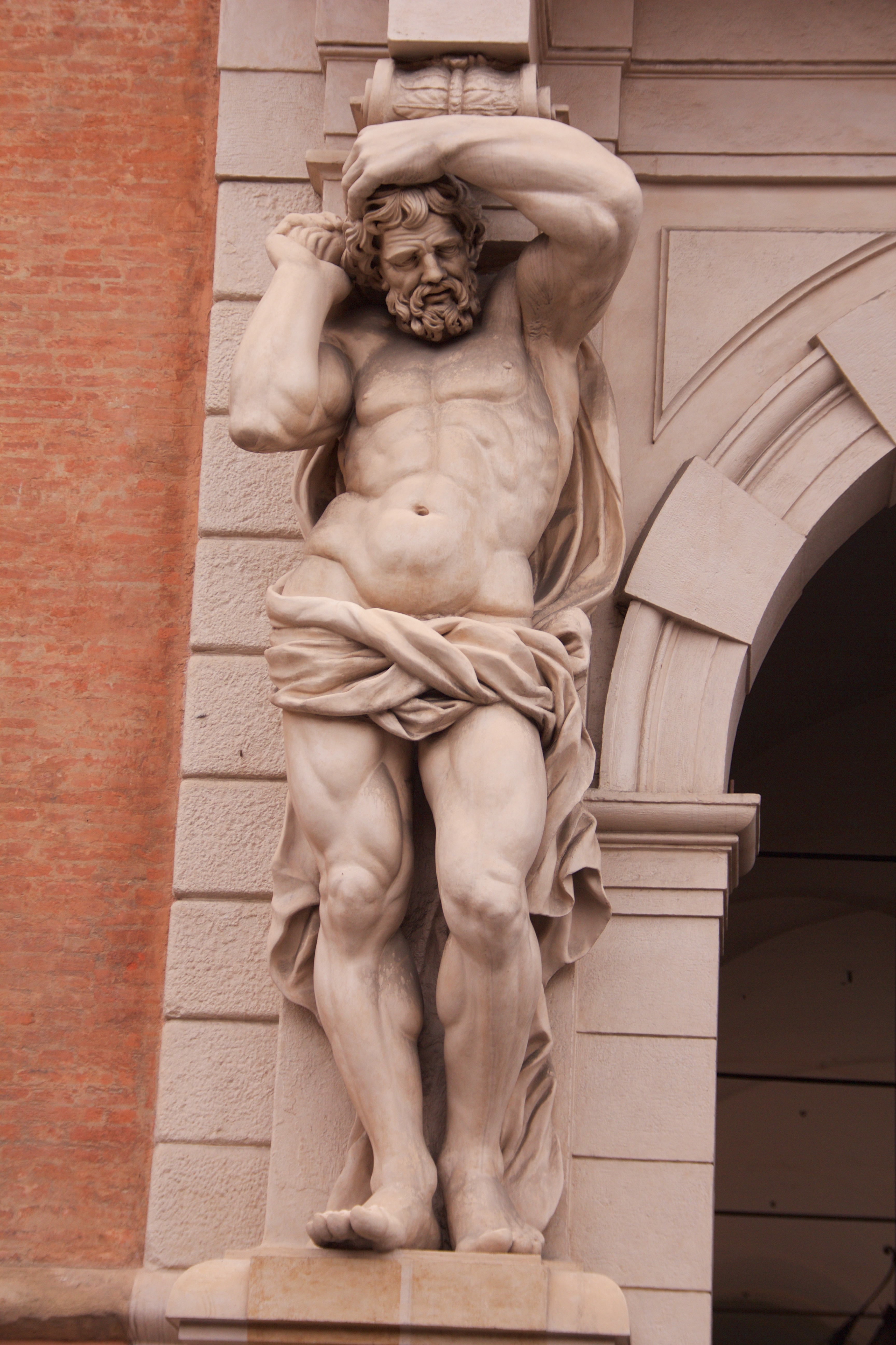 Palazzo Davia Bargellini, Bologna, Italy